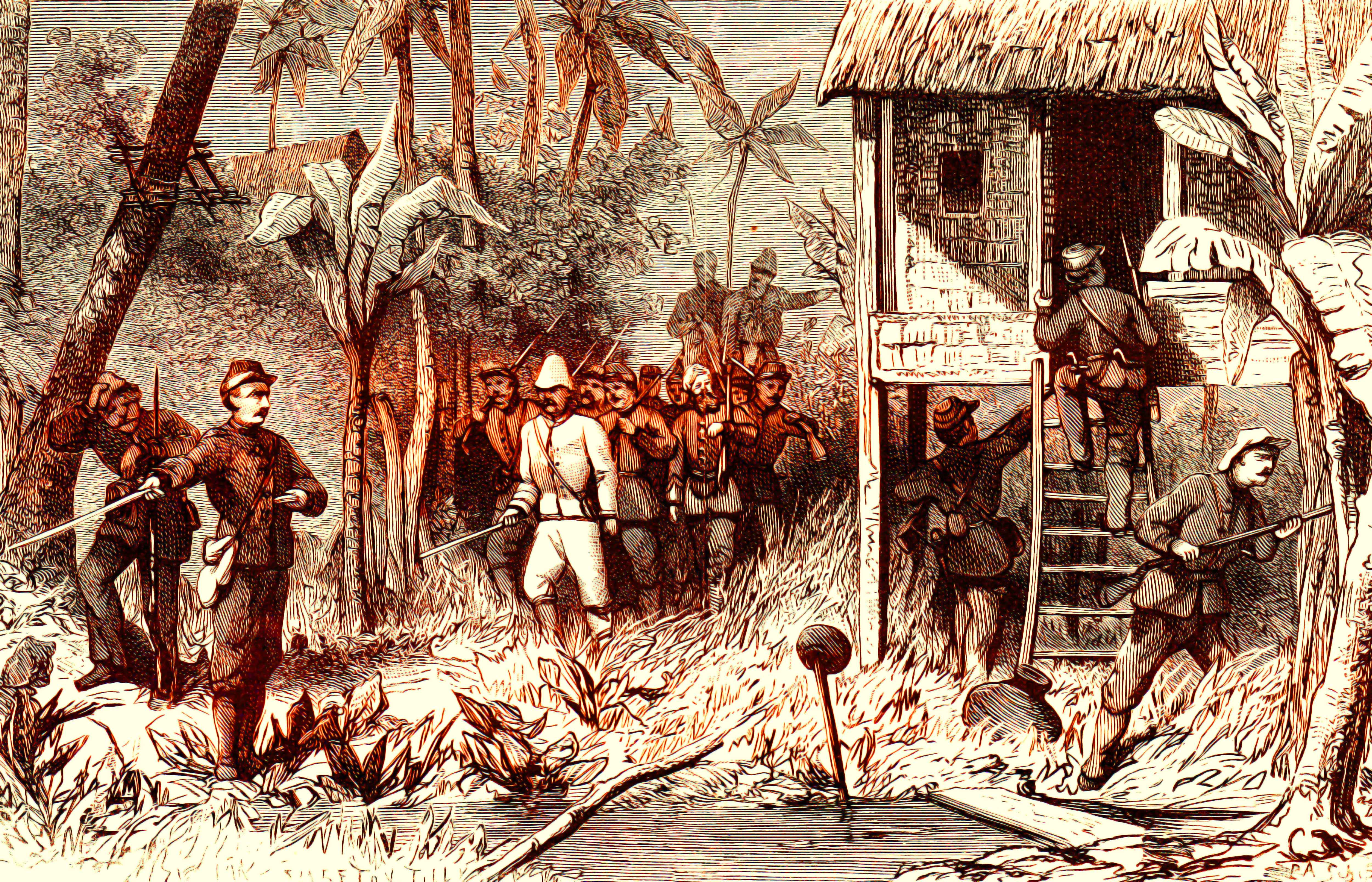 Aceh War (1873–1914) between the Netherlands and the Aceh Sultanate.